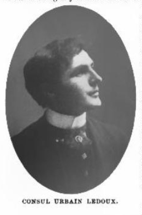 Ubrain Ledoux circa 1906